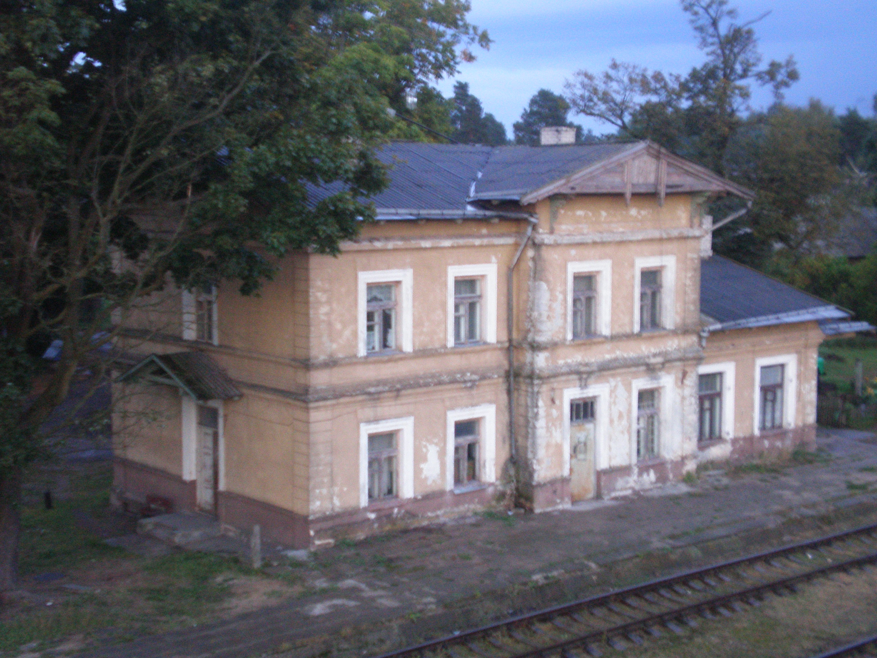 The train station of Gaižiūnai, Lithuania